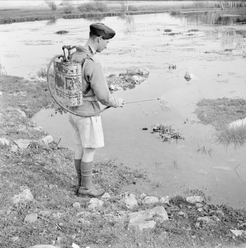 The British Army in the Middle East 1942 A stagnant pool being sprayed with Paris Green to kill the larvae and pupae of mosquitos in an effort to prevent Malaria being contracted in Syria, 11 May 1942.